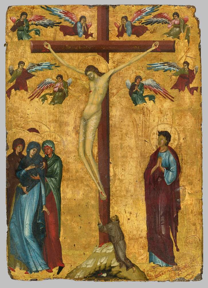 Jacopino da Reggio The Crucifixion with St Francis c. 1285 Tempera on panel, gold ground, 25 x 18 cm Private collection